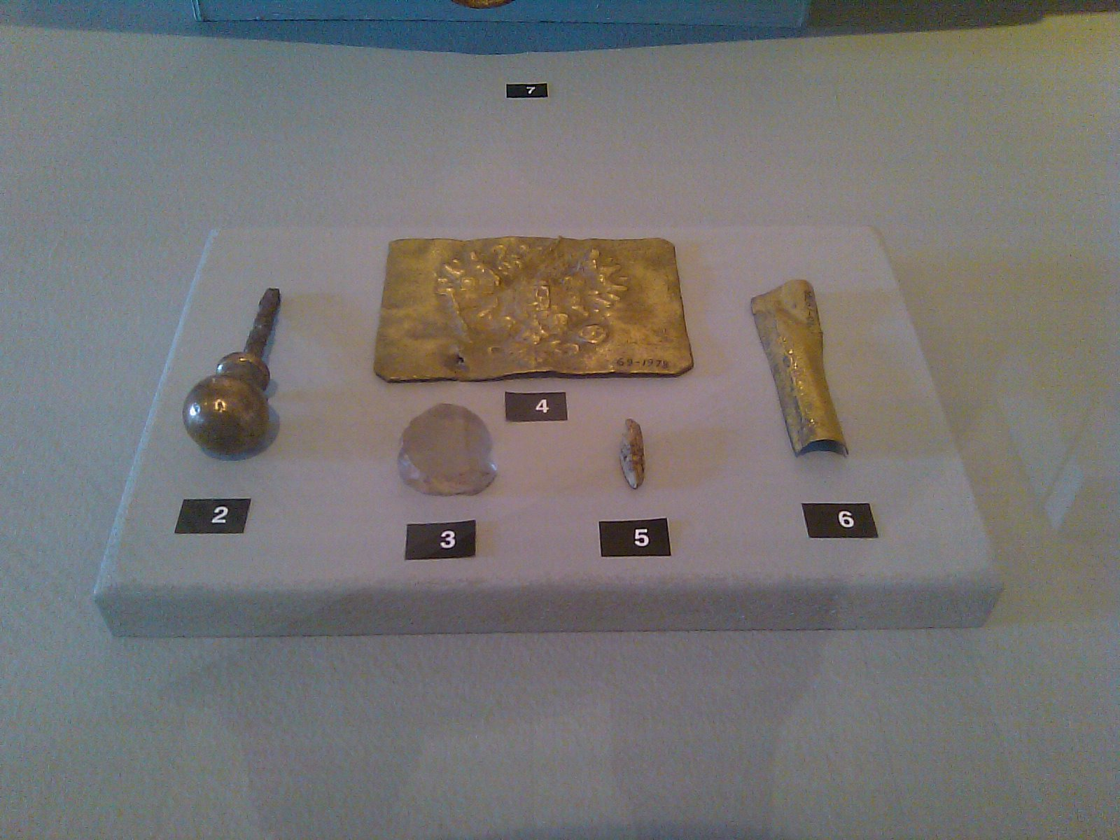 Artefacts from the escavations of Observatorium Tusculanum